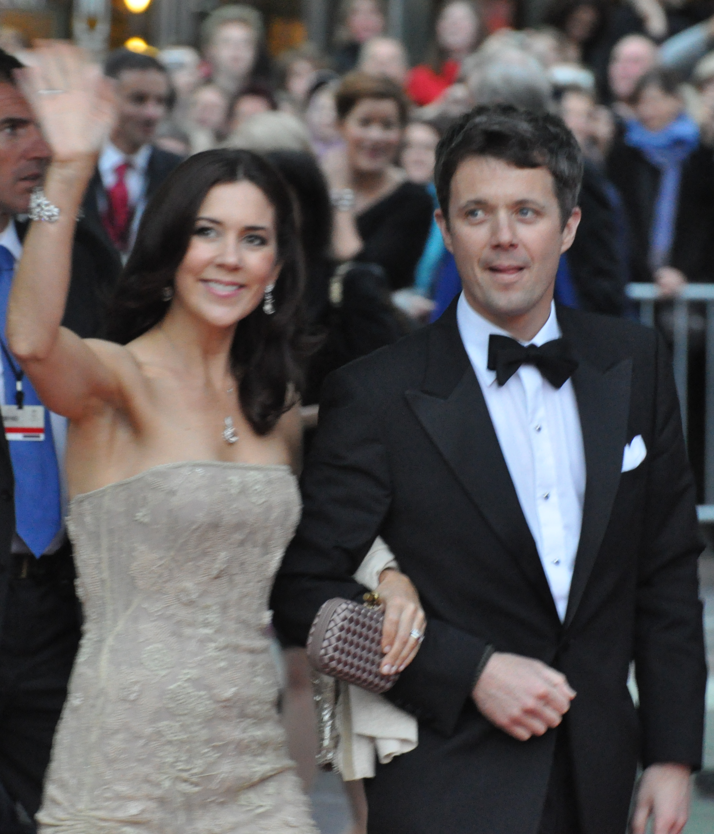 Frederik, Crown Prince of Denmark and Mary, Crown Princess of Denmark arrive at the wedding of Victoria, Crown Princess of Sweden and Daniel Westling.